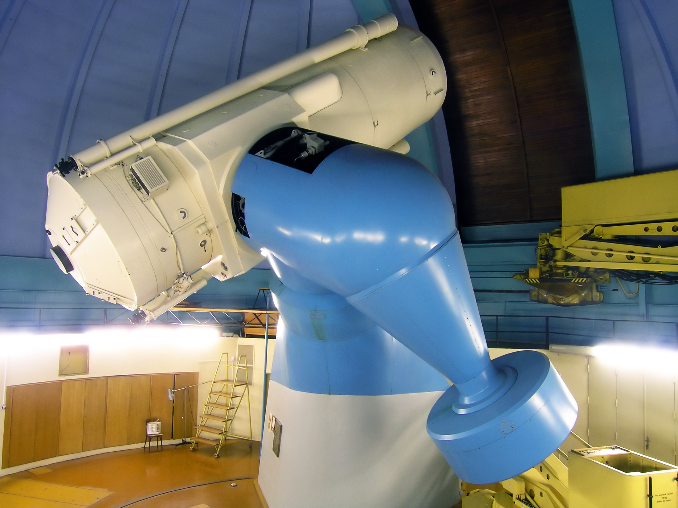 The biggest Czech telescope – 2-m reflector from the Czech Astronomical Institute in Ondřejov